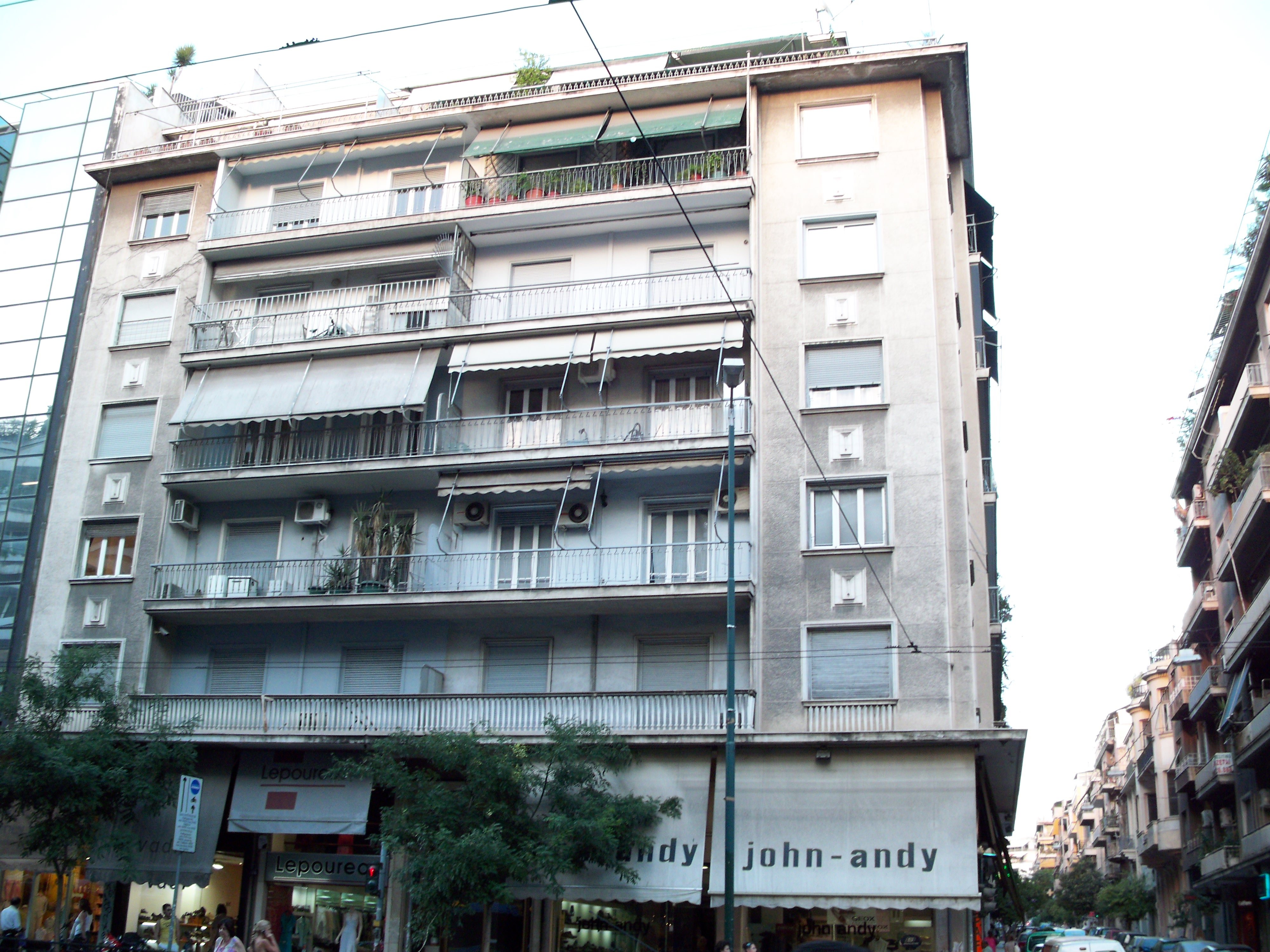 Condominium in Kypseli, Athens, Greece